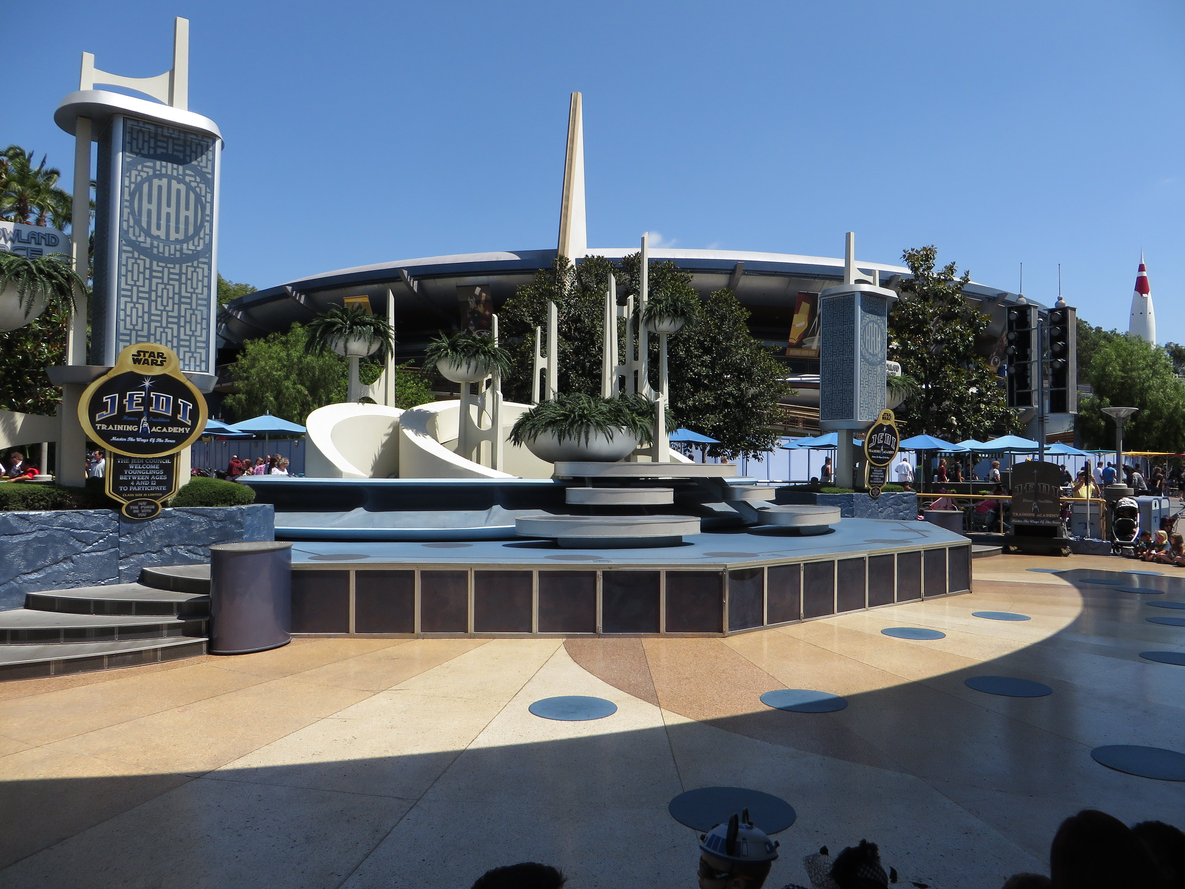 Tomorrowland Terrace is a restaurant located in Tomorrowland at Disneyland in Anaheim, California that is notable for its unique concert stage, which hydraulically rises out of the ground. It opened with the new Tomorrowland in 1967. Sixteen or more children are chosen from the audience as Jedi Younglings to participate in a training session by the Jedi Master. They are provided training lightsabers and Jedi robes. As the master completes the instruction of a simple combination of lightsaber attacks to the children, Darth Vader, Darth Maul and a pair of stormtroopers appear. Each Jedi trainee faces off in turn with either Maul or Vader until the villains retreat back to the stage, outnumbered (there was, however, one viral instance of an 8 year old girl who, rather than fighting Darth Vader, instead opted to join the dark side with him, and was subsequently led to 'the Sith Training Academy' by the understandably flummoxed Jedi Master). The children, now Padawans, are congratulated on their mastering of the Force by Yoda, then return the training lightsabers and robe, and are given a diploma for their participation. A duplicate version of the interactive show also occurs daily, as a standalone event at the Tomorrowland Terrace in Disneyland.